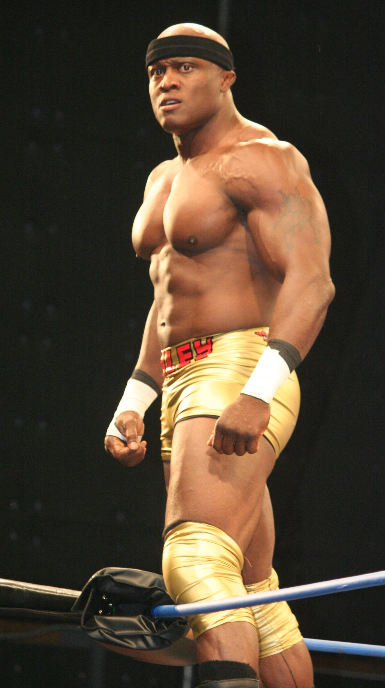 Lashley at Slammiversary XV event.